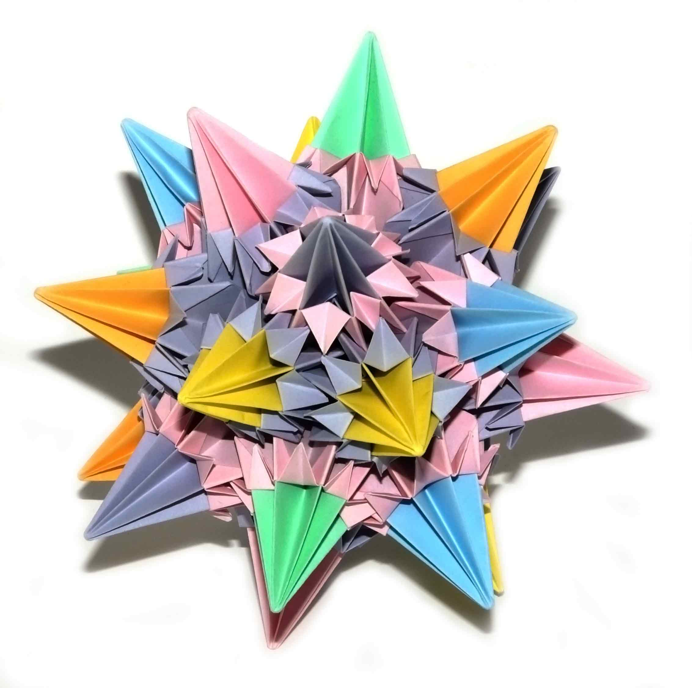 Star kusudama